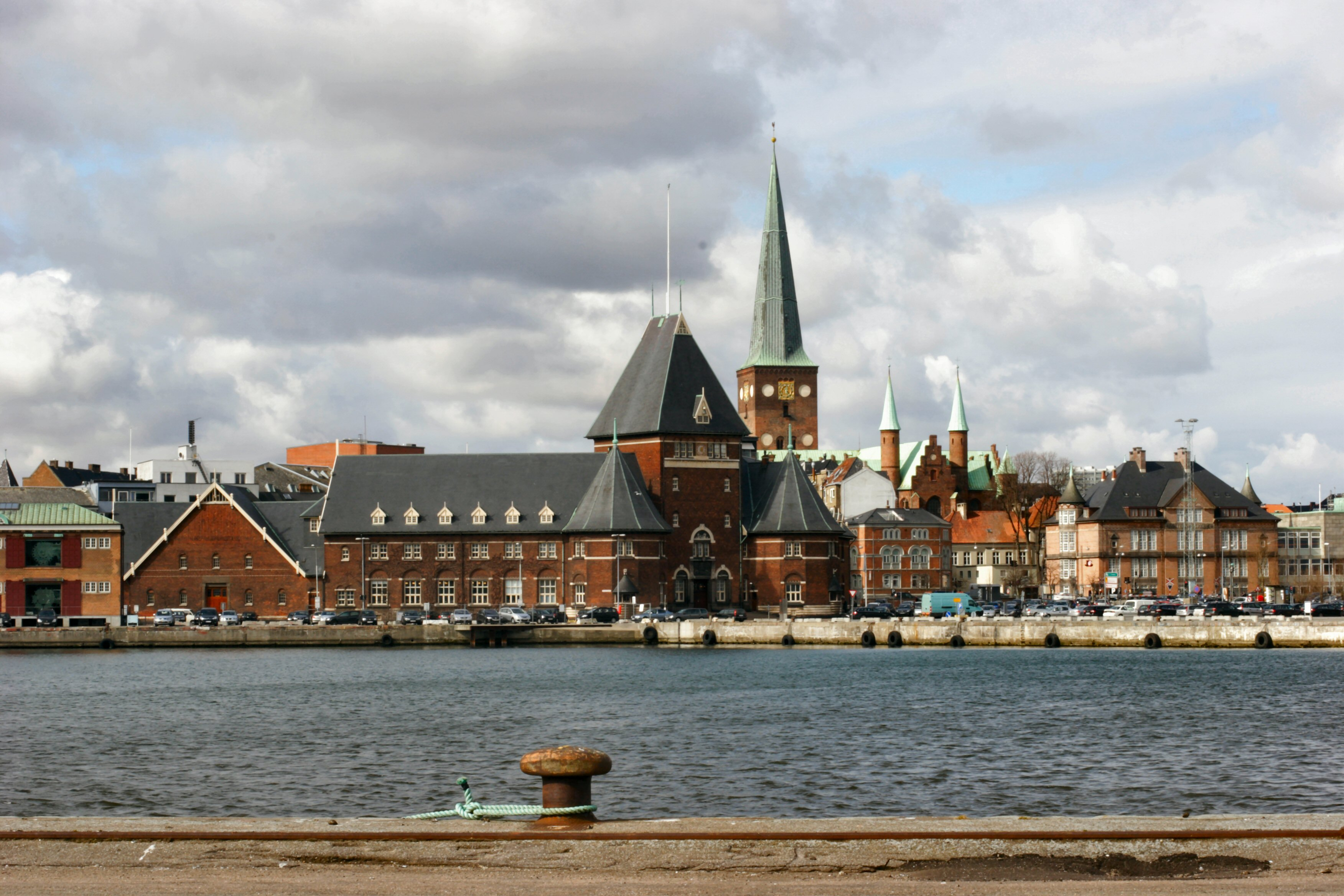 Toldboden, Aarhus Domkirke and Katedralskolen seen from "Dokken" (an old shipyard), Aarhus, Danmark